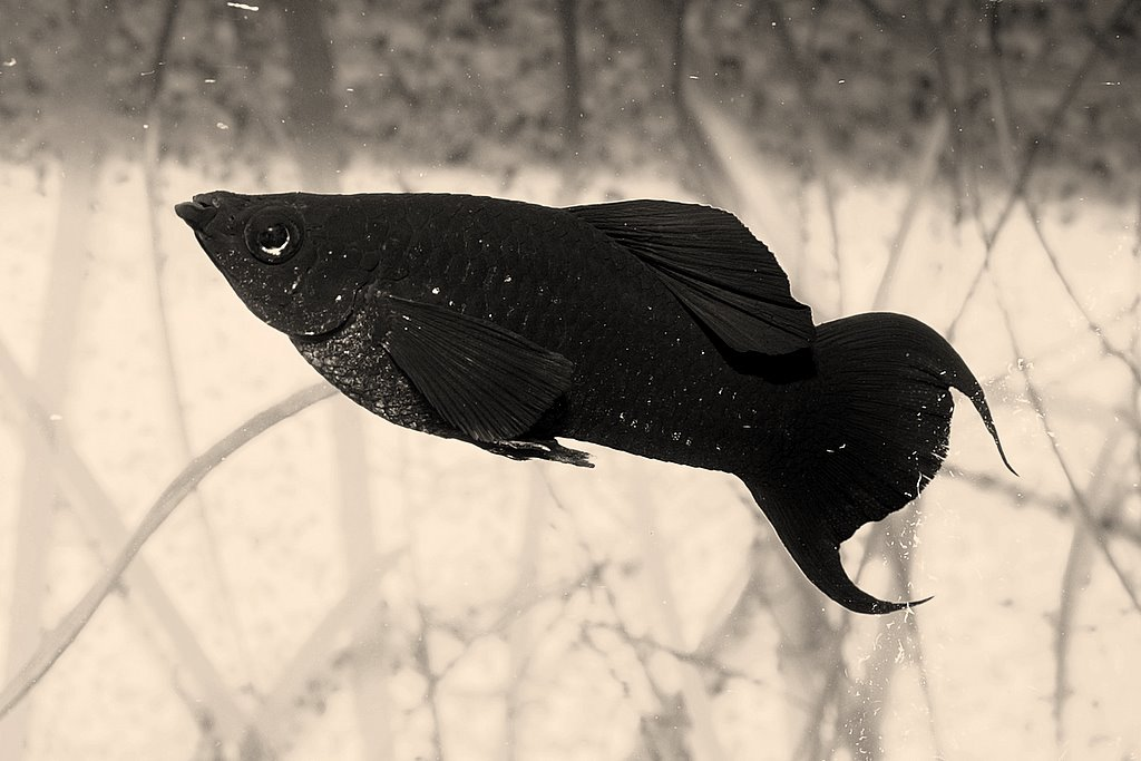 Black Molly